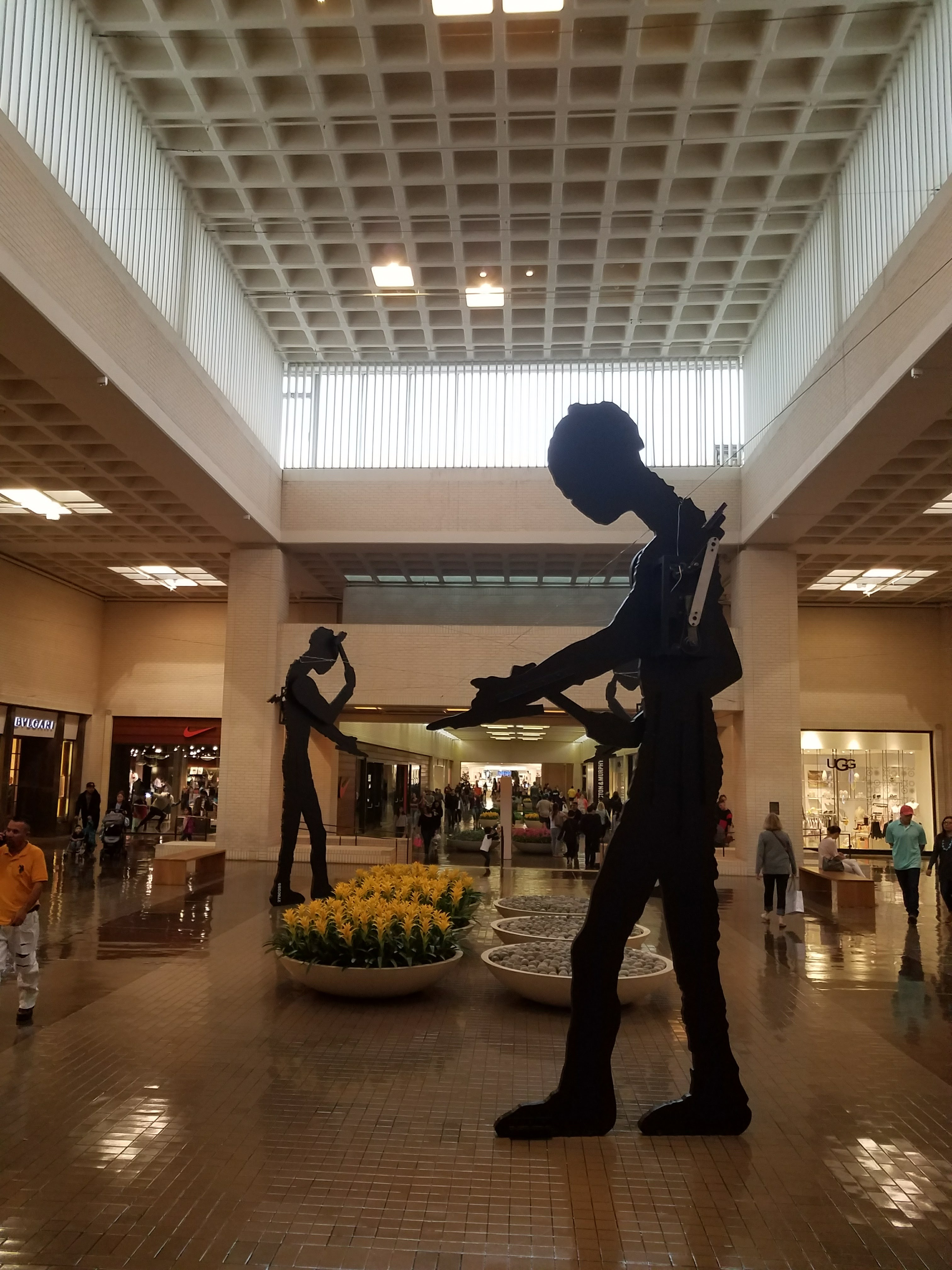 A photograph of the art displayed in the original center court, now south court.